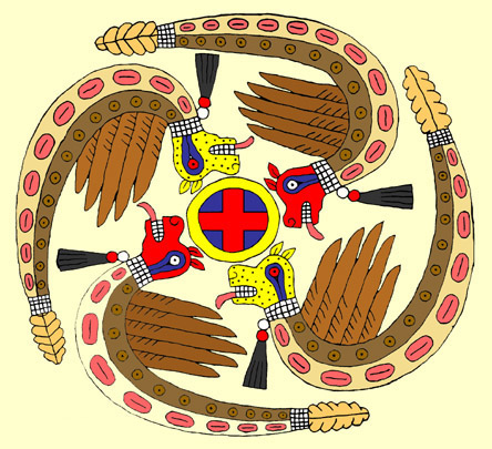 A digital illustration of Horned Serpent by the artist Herb Roe. Based on an engraved shell cup in the Craig B style (designated Engraved shell cup number 229 [1]) from Spiro, Oklahoma.